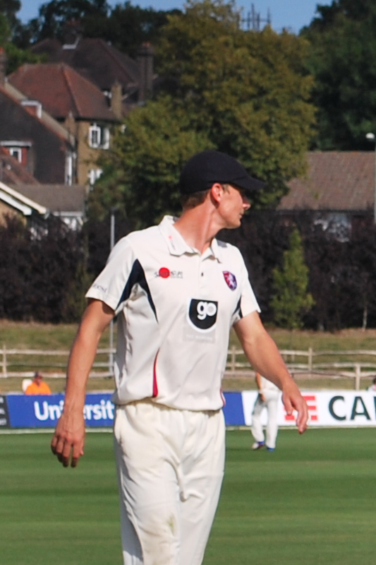 Will Gidman fielding at the Kent County Cricket Ground, Beckenham in September 2016